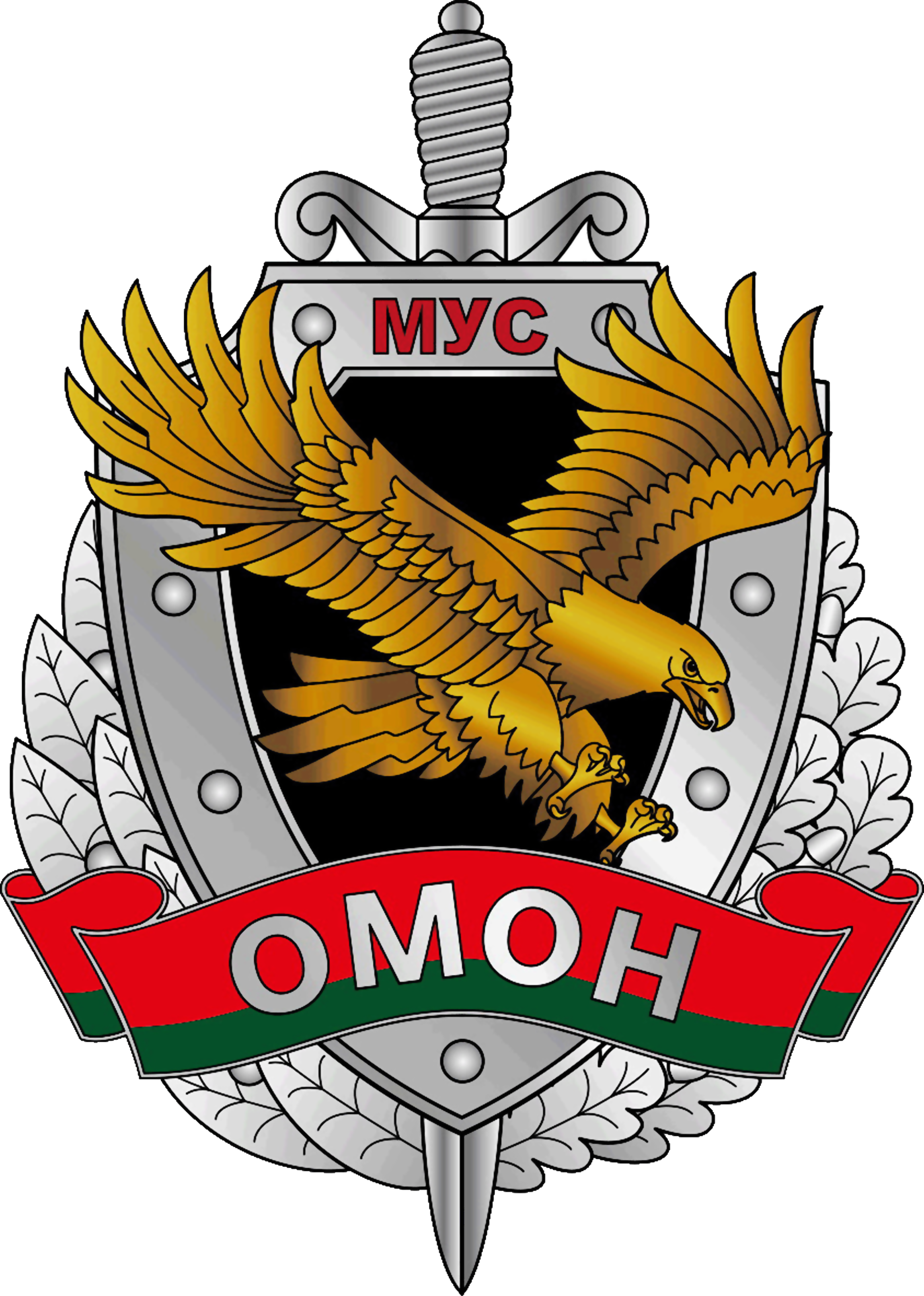 Insignia of the Special Purpose Police Detachment, a law enforcement force under the Ministry of Internal Affairs of Belarus